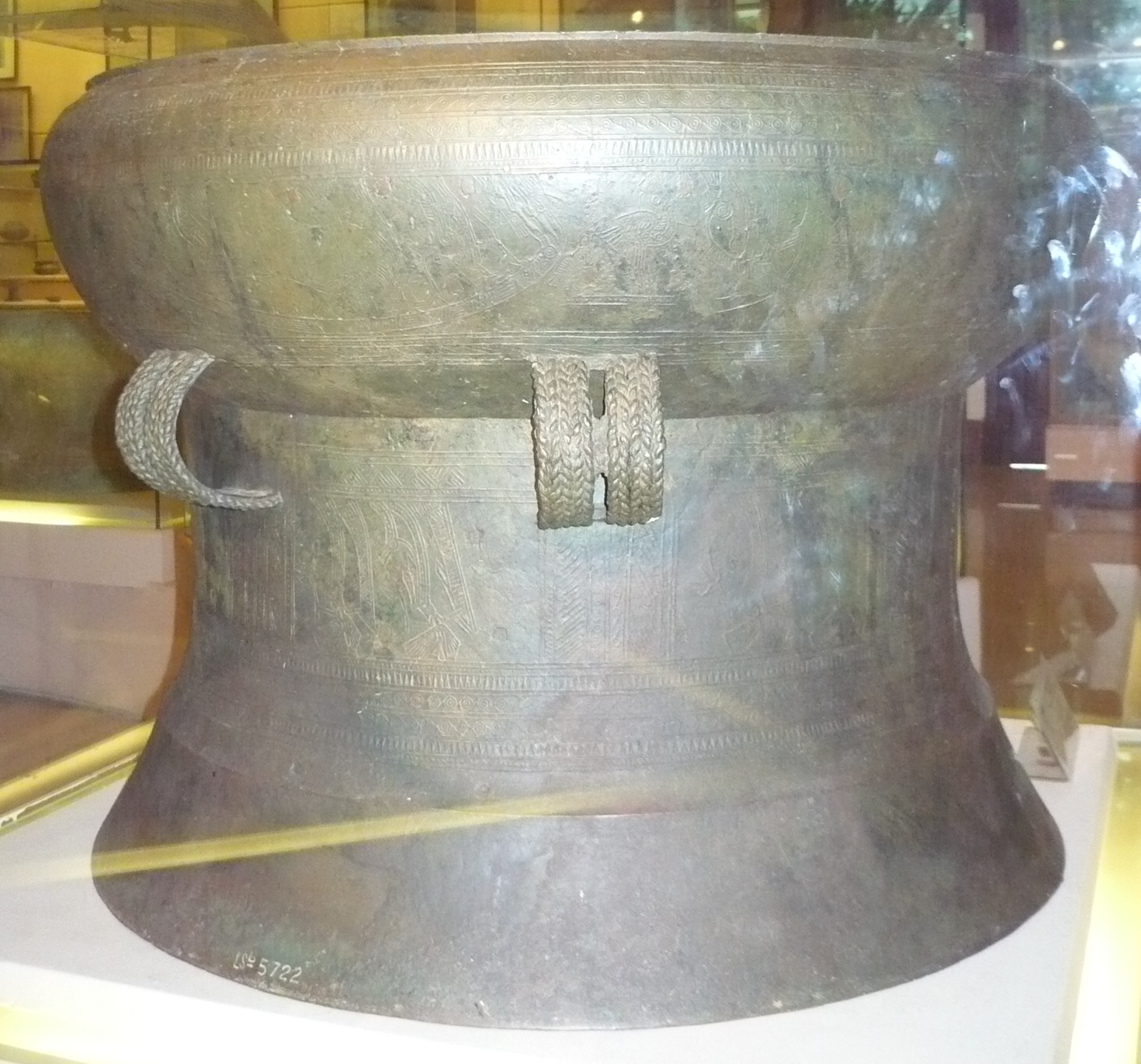 NGỌC LŨ BRONZE DRUM Bình Lục District, Hà Nam Province h: 63cm, d: 79.3cm